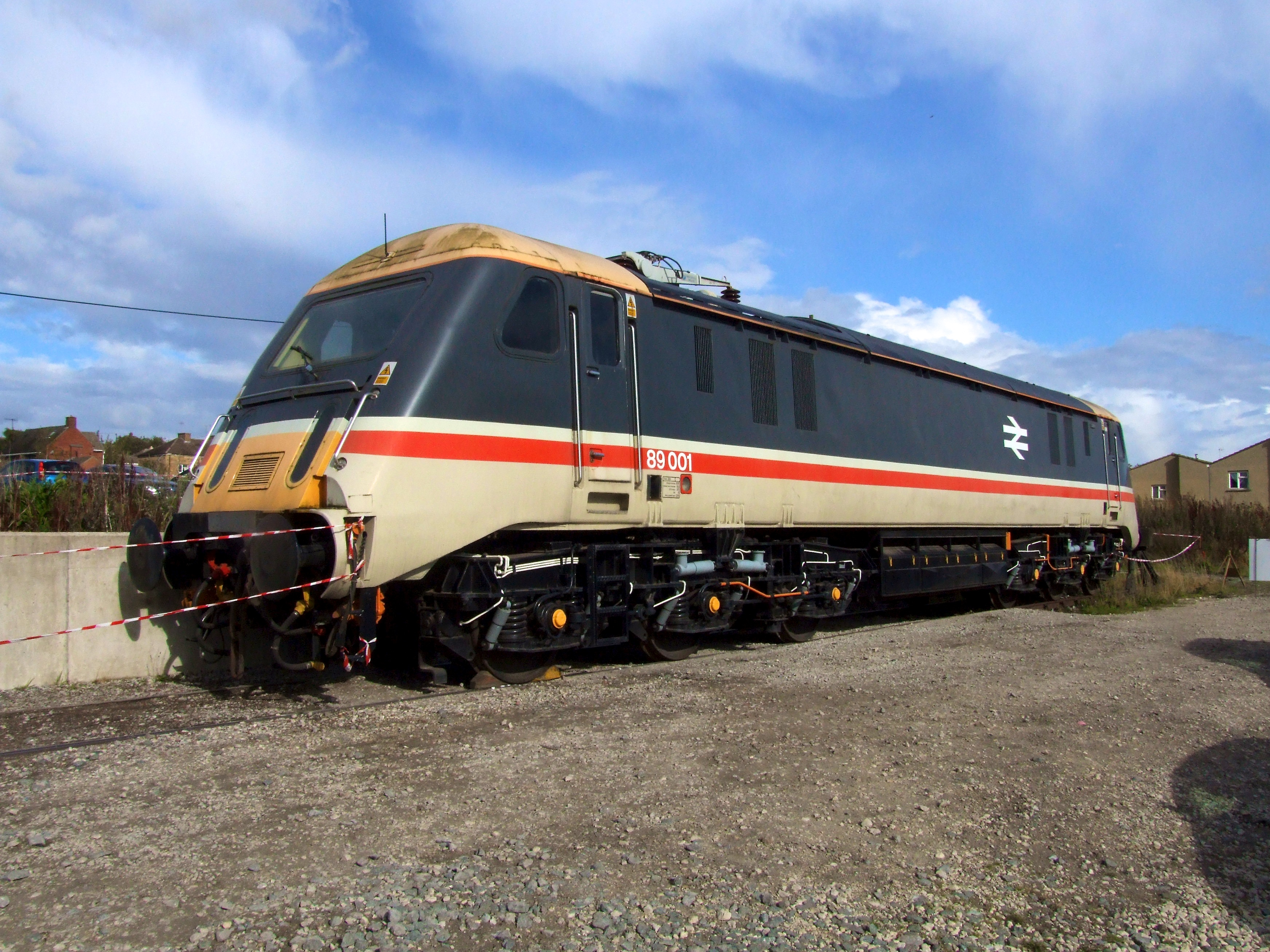 Lying at the far end of Model Rail 2011 Barrowhill Roundhouse